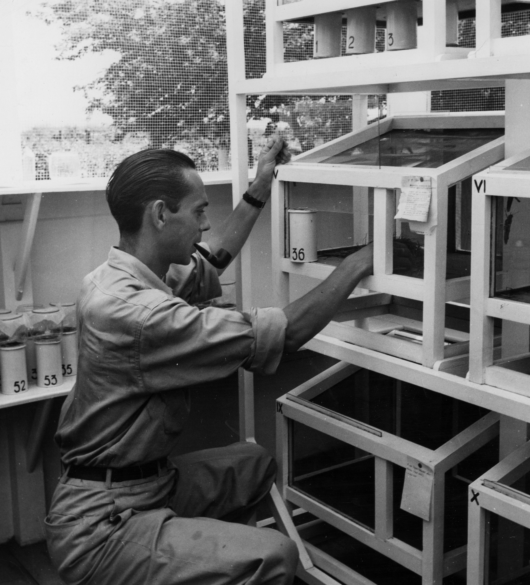 Eugenio Morales Agacino at the CICLA insectary in Managua (Summer 1951).